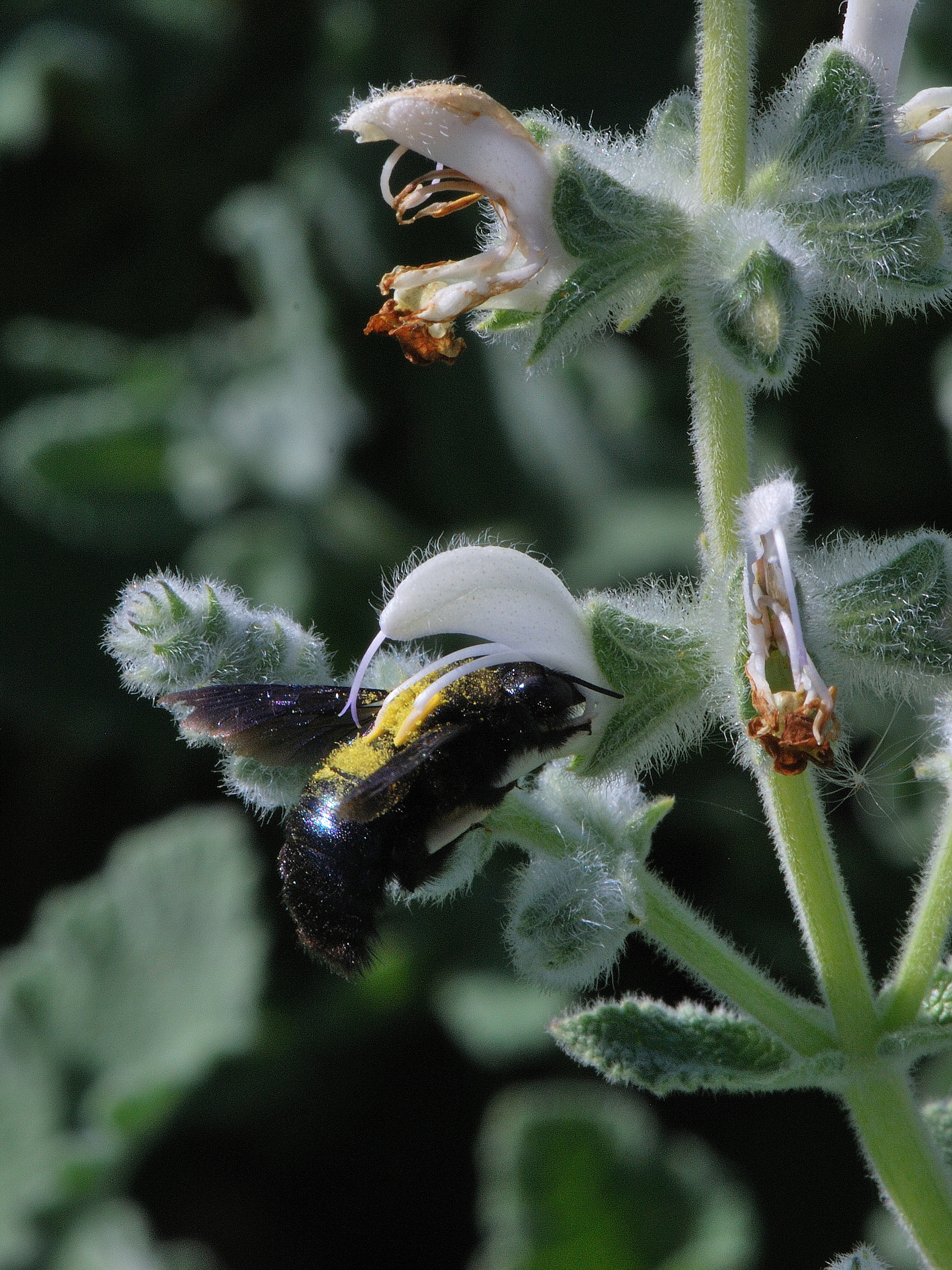 Female solitary bee (Xylocopa iris) collecting nectar and pollinating a Salvia dominica flower, Judean Foothills, Israel, January 16, 2010.